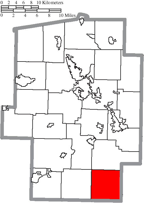 Map of the municipal and township boundaries of Tuscarawas County, Ohio, United States, as of the 2000 census, with the location of Perry Township highlighted. Township borders are shown only in unincorporated areas in order to differentiate incorporated and unincorporated areas more clearly.